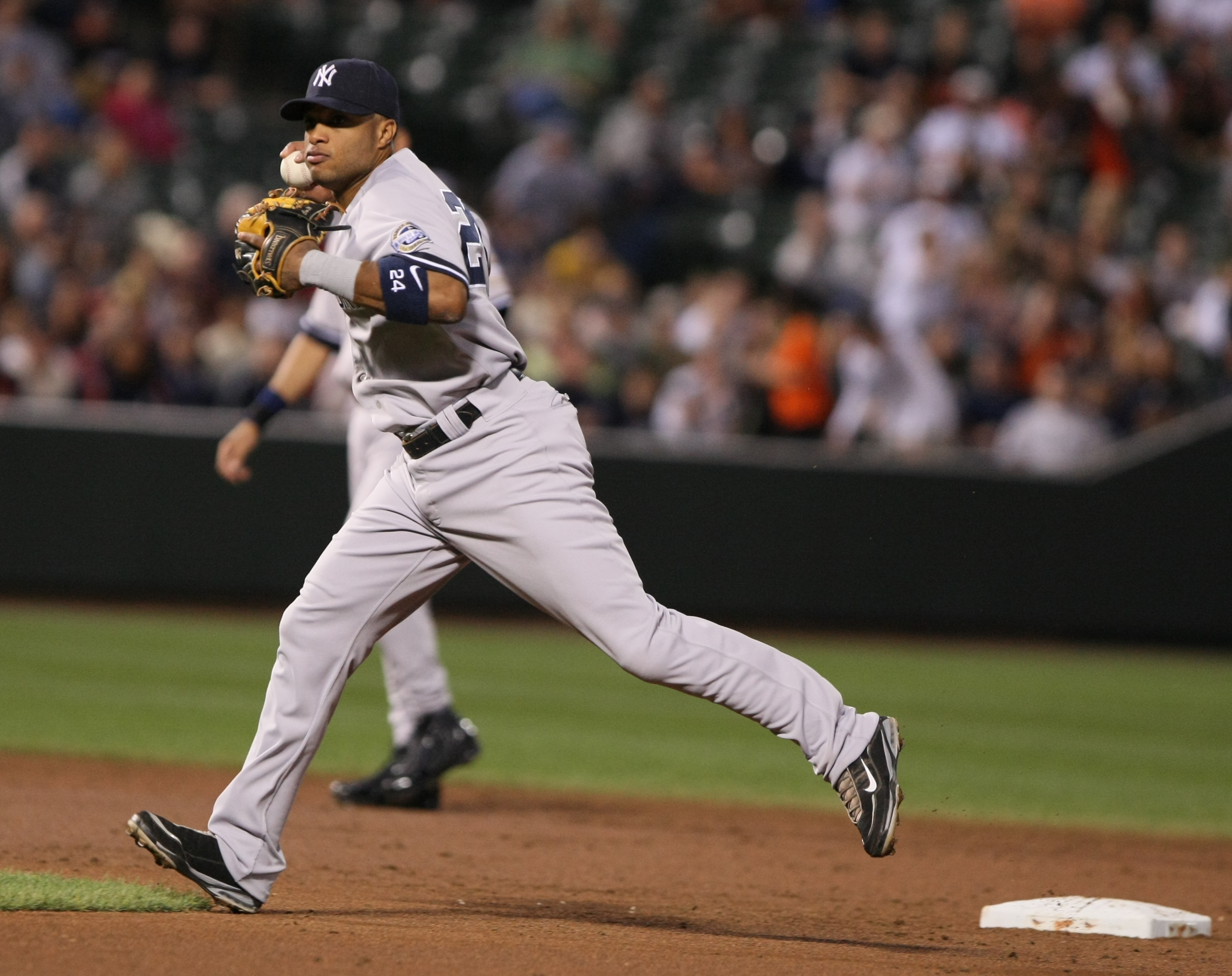 Image courtesy of Keith Allison on Flickr. New York Yankees v/s Baltimore Orioles 08/31/09.